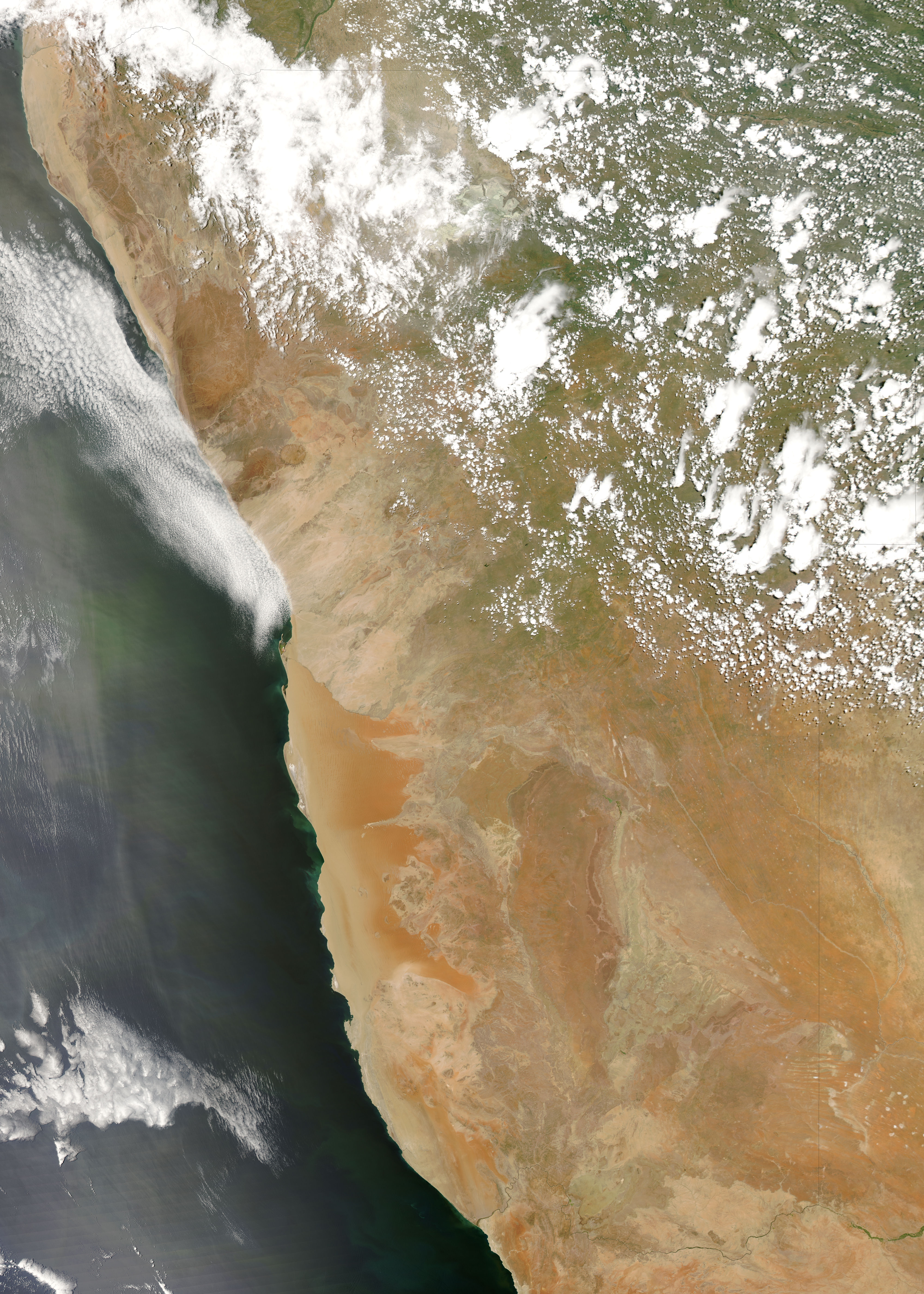 Satellite image of the Namib Desert.